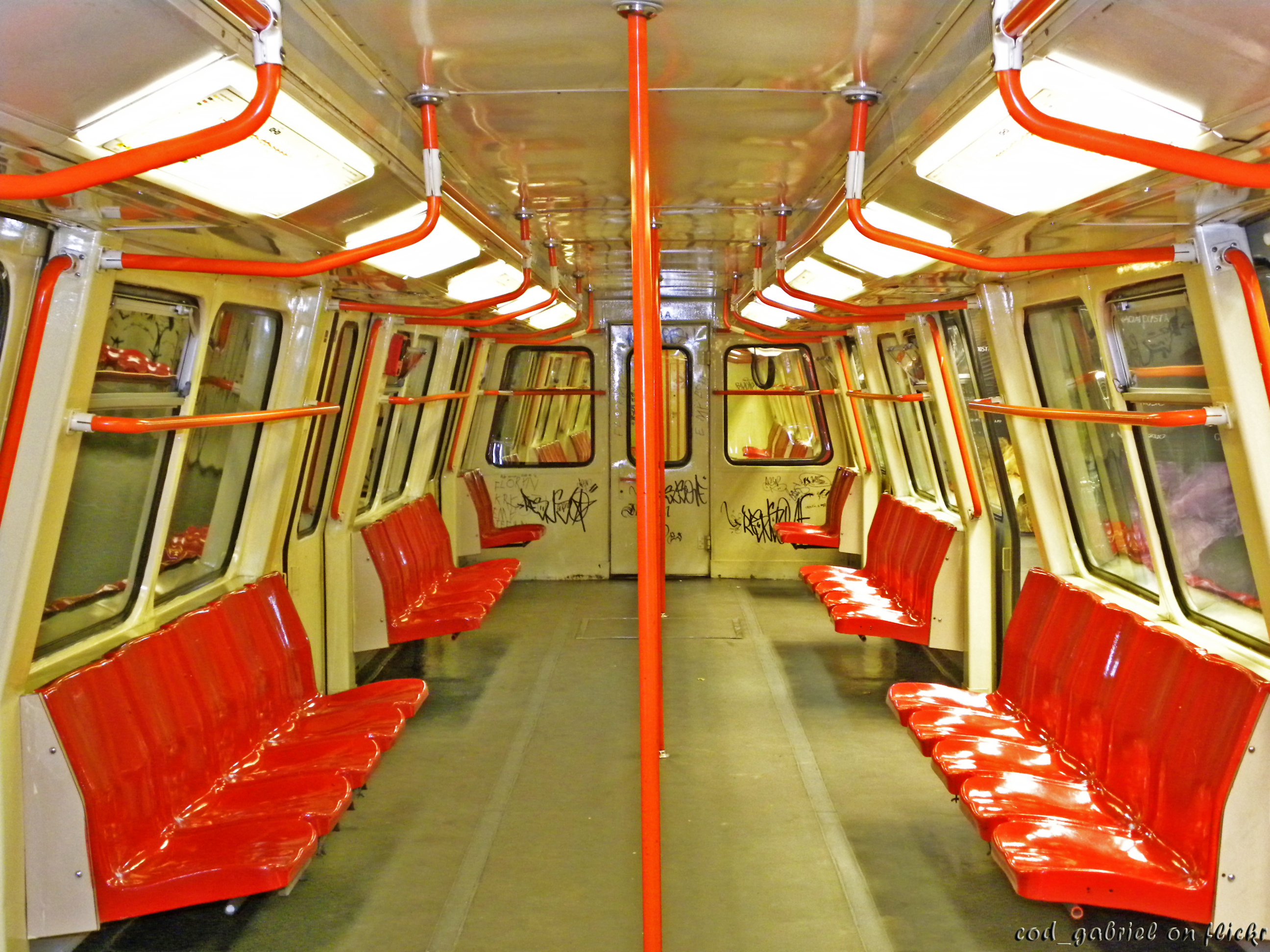 The interior of an IVA-type metro on Line 4 of the Bucharest Metro